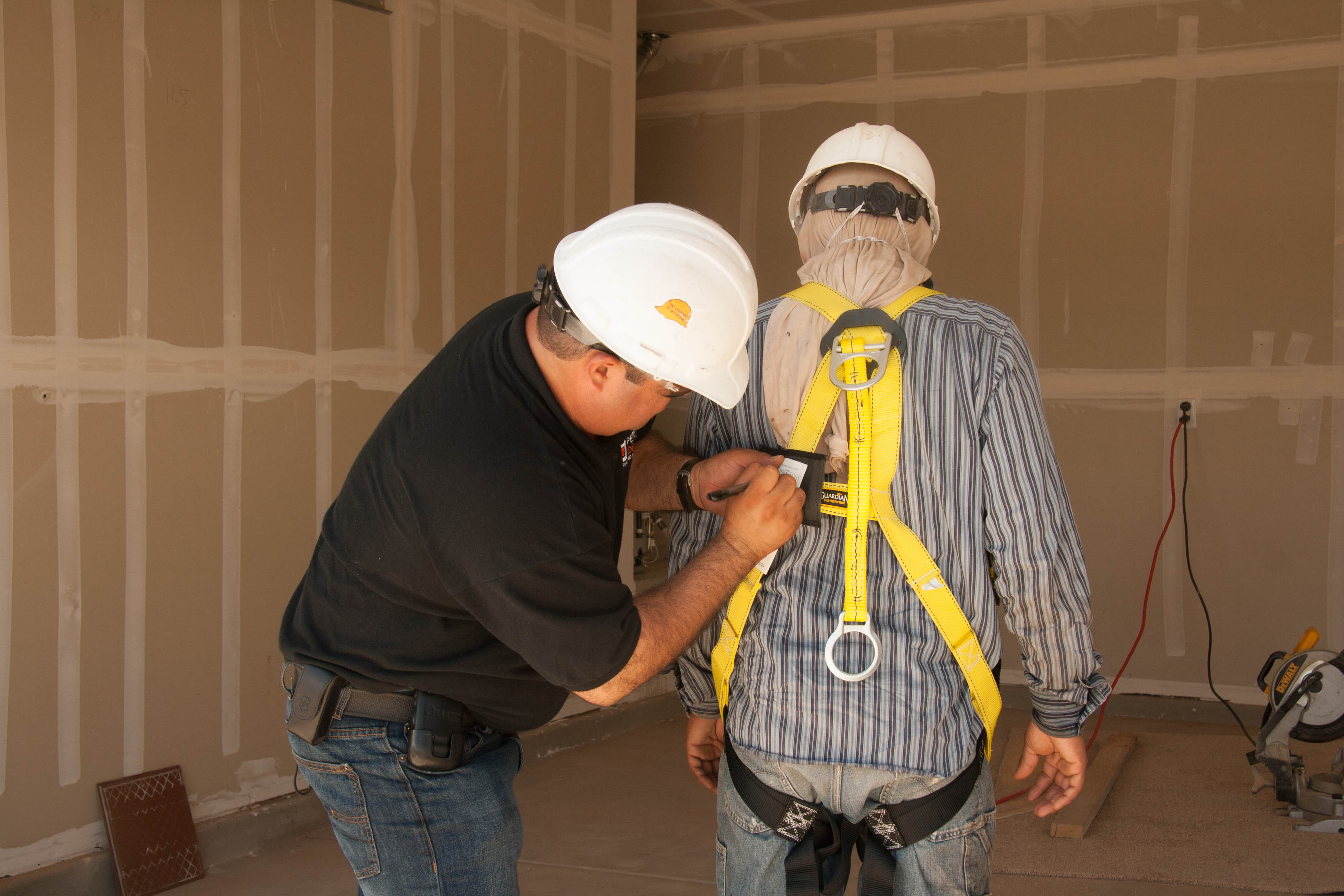 A construction worker wearing a fall arrest system harness